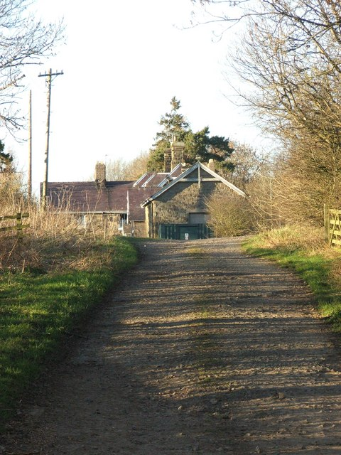 Glanton Station Now a private dwelling,the disused railway line runs behind the house